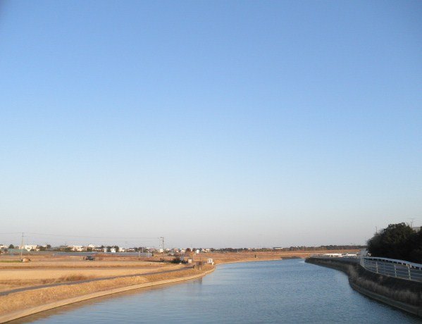 Wadajimatown Matsudashinden Komatsushimacity Tokushimapref Ota river